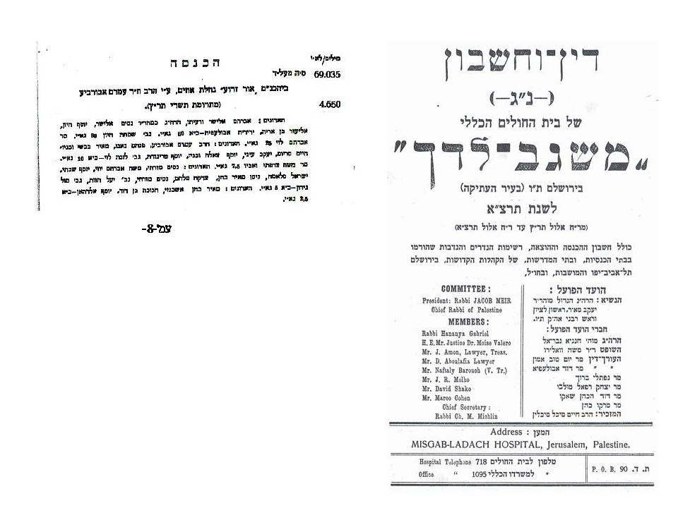 Or Zaruaa synagogue members charity by Rabbi Amram Aburbeh to Misgab-Ladach Hospital in Jerusalem according to donations income report 1931